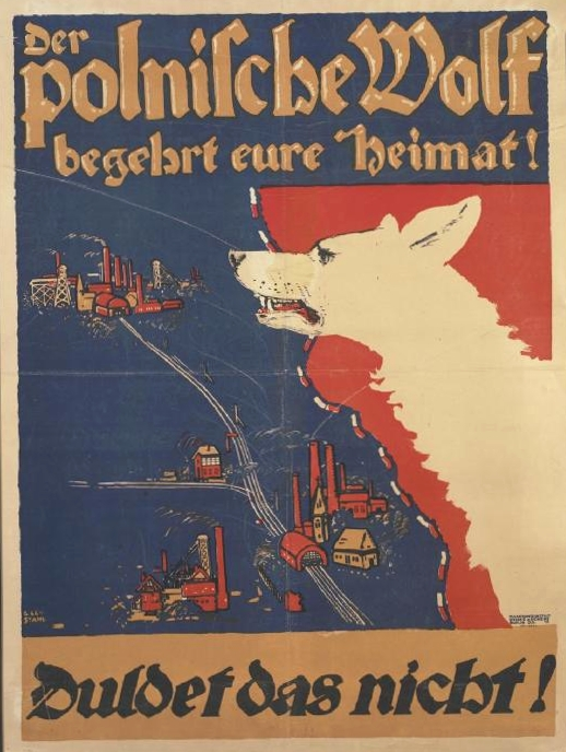 German propaganda poster. Illustration of the border separating Germany and Poland. "Der Polnische Wolf begehrt eure Heimat!" - "The Polish wolf covets your country!".